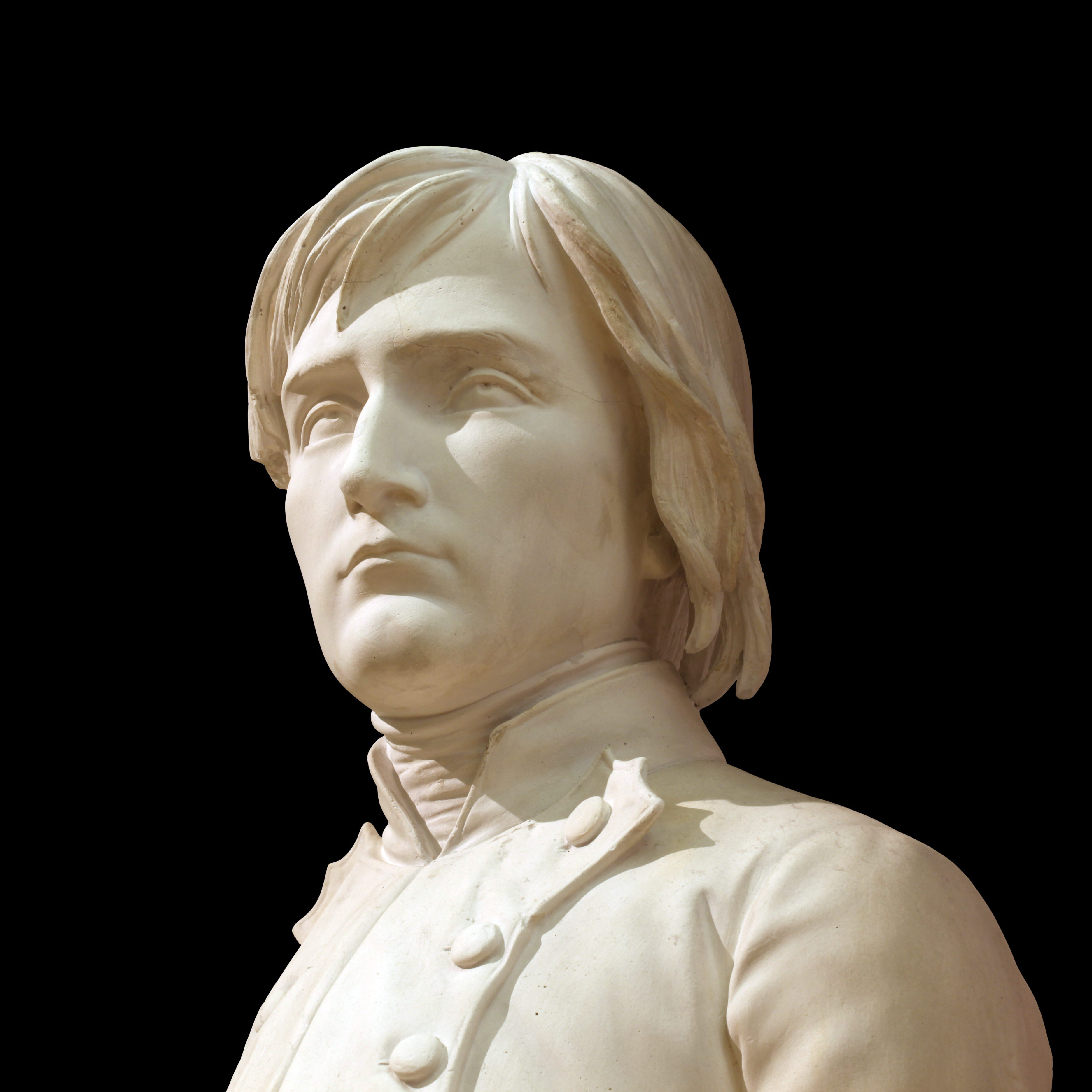 Plaster statue, double of a plaster made as a template for a bronze statue erected in front of Brienne townhall.